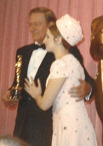 An amateur snapshot taken April 7, 1970 in the backstage press area at the 42nd Annual Academy Awards.